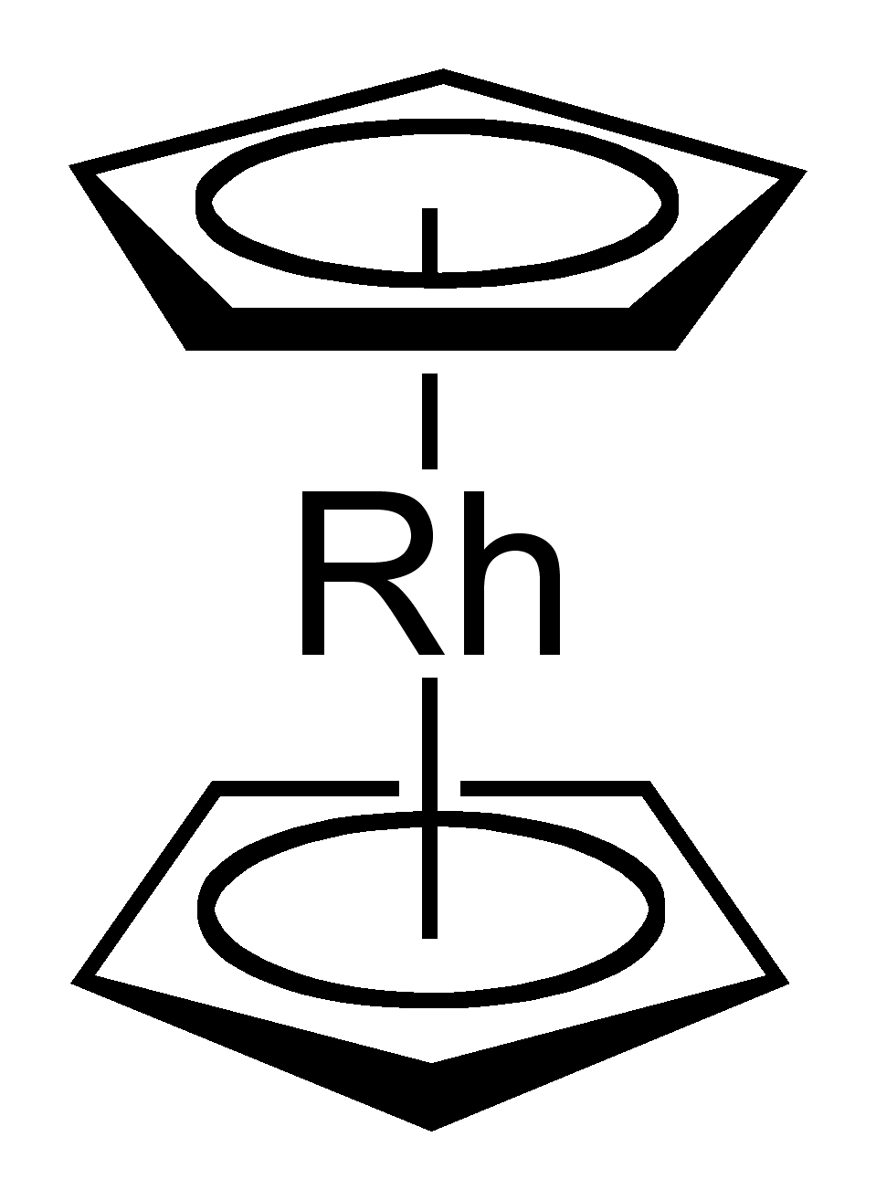 Skeletal formula of rhodocene, [Cp2Rh]. Structure drawn in ChemBioDraw Ultra 12.0.